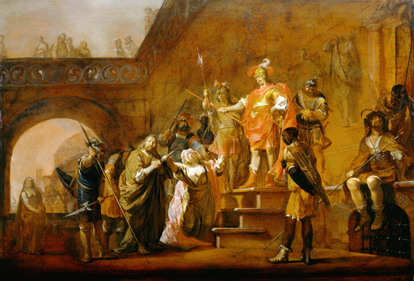 Arria und Paetus